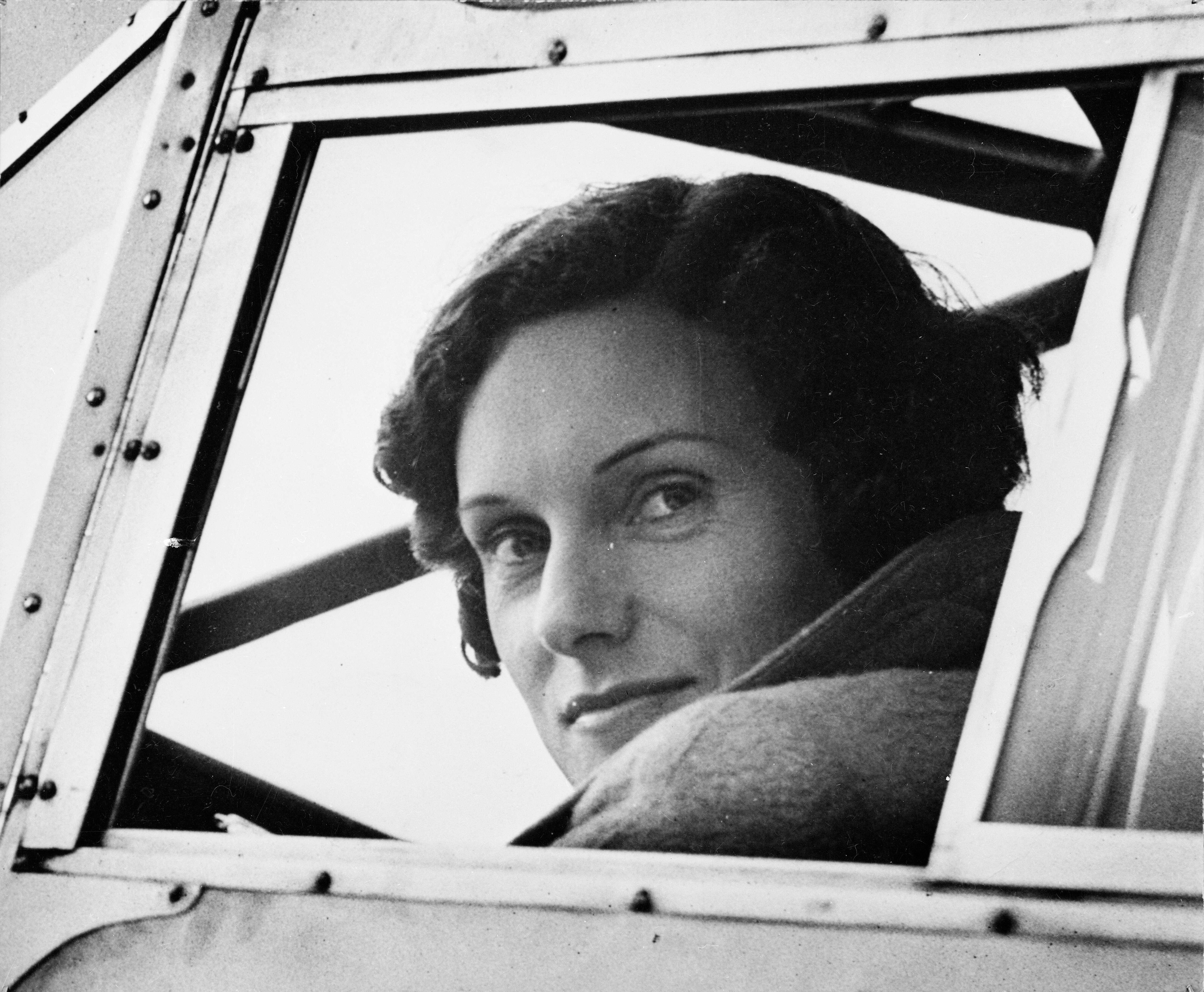 Aviator Jean Batten in the cockpit of an aircraft.